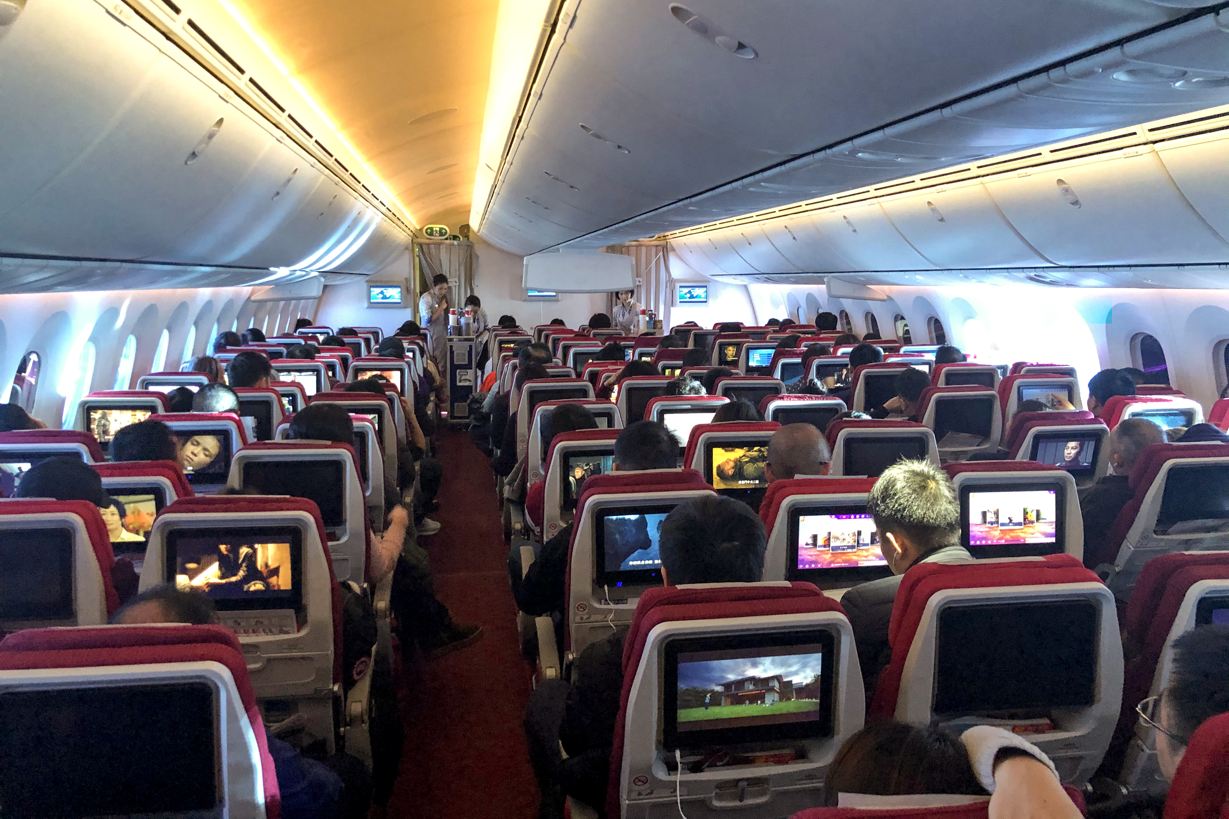 Hainan 7975 from Chongqing to Beijing and Toronto. Time for breakfast!